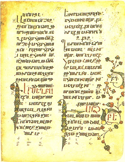 Armenian manuscript dated of the early middle ages. The text is the Gospel of Mark 3:28-4:2 Translation 28"Truly, I say to you, all sins will be forgiven the children of man, and whatever blasphemies they utter, 29but whoever blasphemes against the Holy Spirit never has forgiveness, but is guilty of an eternal sin" -- 30for they had said, "He has an unclean spirit." 31And his mother and his brothers came, and standing outside they sent to him and called him. 32And a crowd was sitting around him, and they said to him, "Your mother and your brothers[b] are outside, seeking you." 33And he answered them, "Who are my mother and my brothers?" 34And looking about at those who sat around him, he said, "Here are my mother and my brothers! 35Whoever does the will of God, he is my brother and sister and mother." 1Again he began to teach beside the sea. And a very large crowd gathered about him, so that he got into a boat and sat in it on the sea, and the whole crowd was beside the sea on the land. 2And